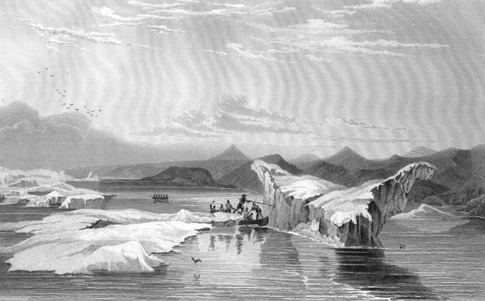 “The Dolphin Squeezed by Ice” (August 6, 1826) [drawn by E. N. Kendall]